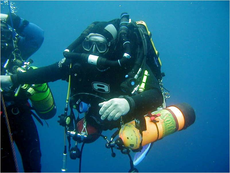 Trevor Jackson returning from a 178 metres (584 ft) dive to the SS Kyogle in Queensland, Australia.